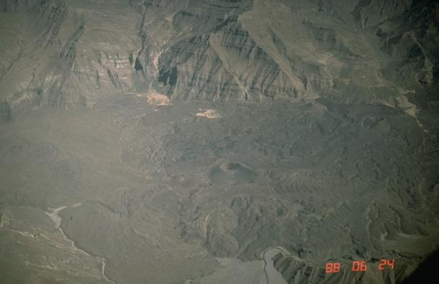 The cinder cones at the center and upper right, surrounded by a prominent field of lava flows, are located in the Andahua valley, known locally as the "Valley of the Volcanoes".